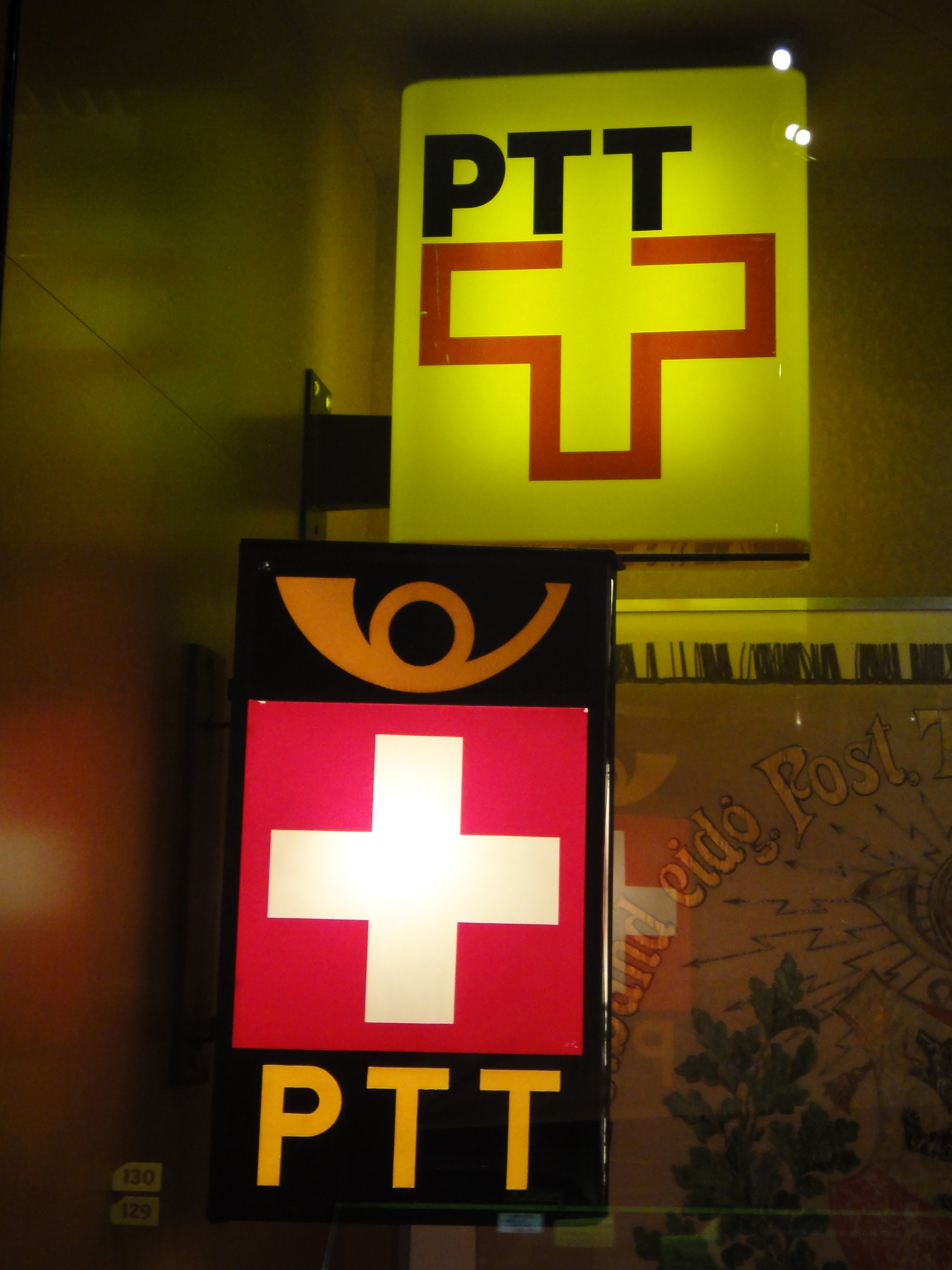 Swiss Post illuminated signage, 1938 (bottom) and 1988 (top).